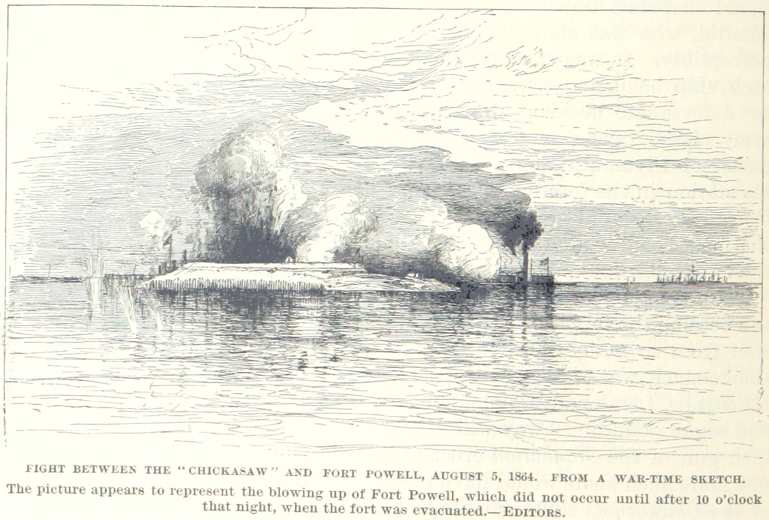 USS Chickasaw fights Confederate guns at Fort Powell, near Mobile, Alabama, on 5 August 1864. The editors note that this image appears to conflate Chickasaws fight and the later deliberate explosion of the fort's magazine.